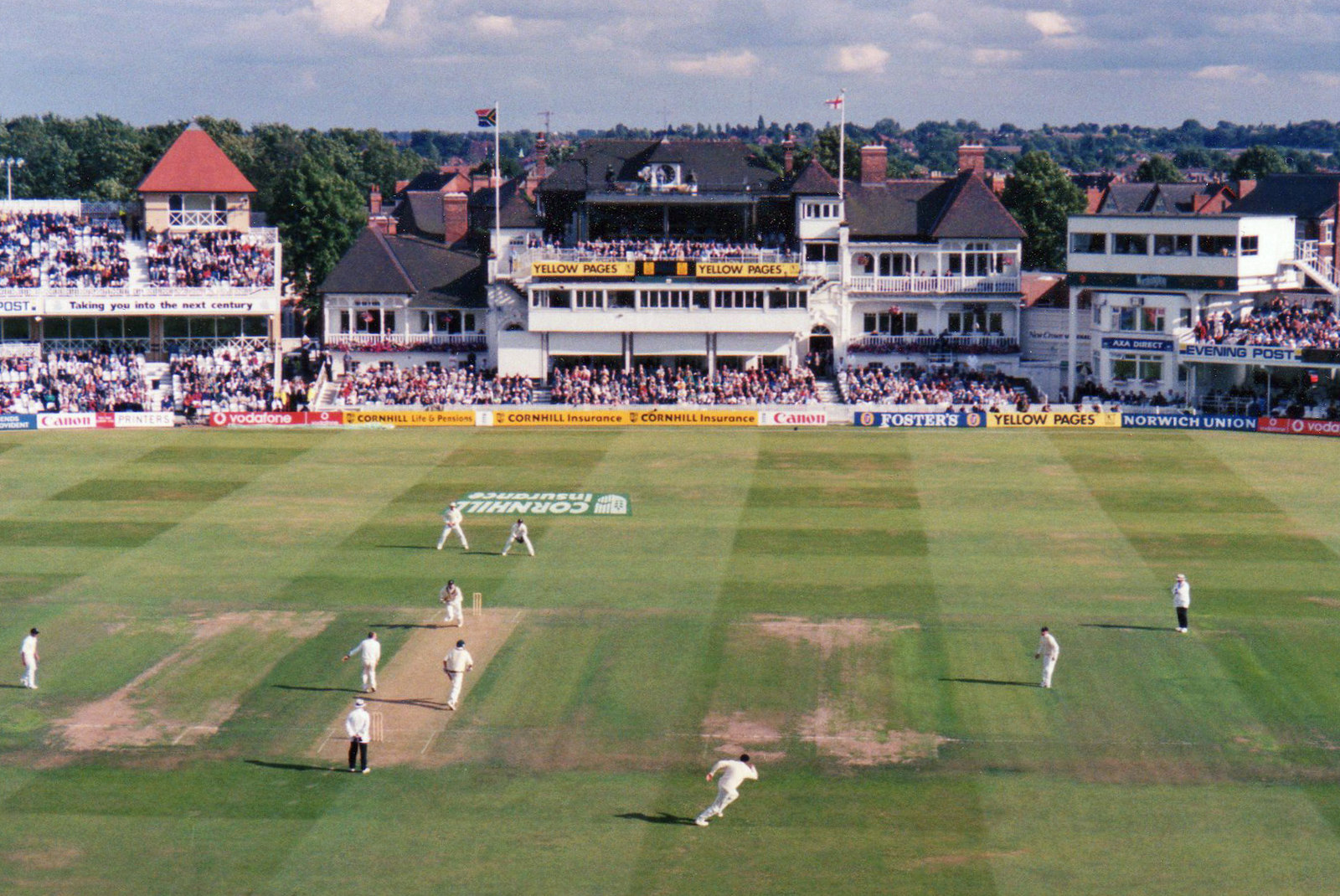 Trent Bridge Cricket Ground: the first day of the 1998 Test Match, near to West Bridgford, Nottinghamshire, Great Britain. In this view from the top of the brand-new Radcliffe Road Stand, opened the day before by Sir Garfield Sobers, the South African all-rounder Shaun Pollock has just clipped Dominic Cork through mid-wicket on his way to 50 of a large South African first-innings score which gave little hint of a second-innings collapse and eventual defeat. Although the lovely old pavilion opposite (from which the then relatively new South African flag flies) is much the same as it was when Sir Neville Cardus described Trent Bridge as a kind of lotos land where the sun always shone and the score was always 300 and something for 2, the Hound Road stand to the left is relatively new and the white offices and the double-decker stand on the right made way for the magnificent new scoreboard and the new Bridgford Road Stand in time for the 2008 season. SK5838 : Trent Bridge Cricket Ground - new developments, 2008